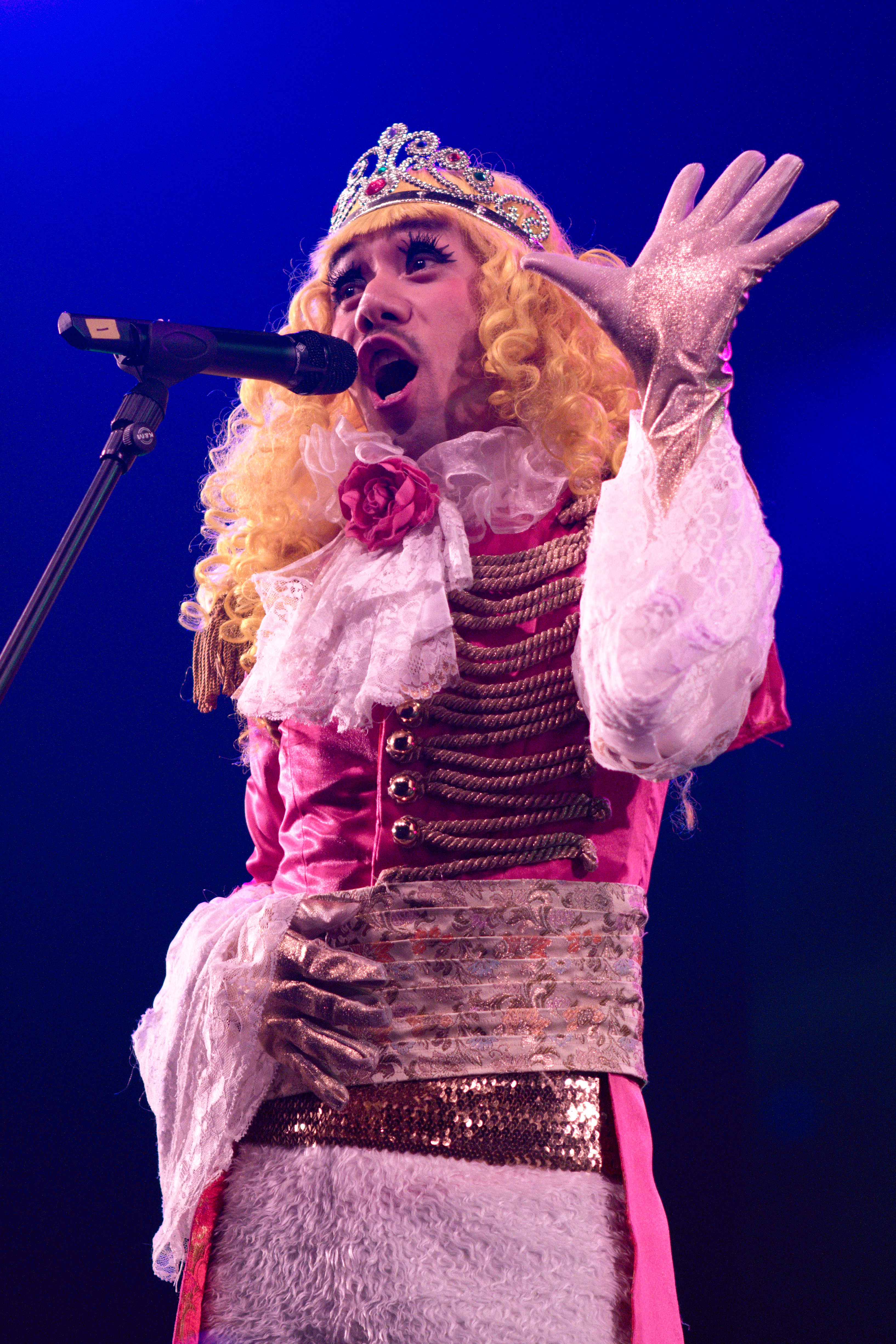 Les Romanesques live at Japan Expo 2011 (Paris, France).